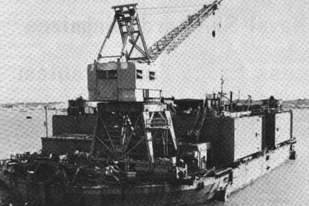 ABSD-6's Section D and one crane under tow to Guam. Note the ballast pontoons tank are folded down for transport to Guam to reduce wind resistance and to have a lower center of gravity.